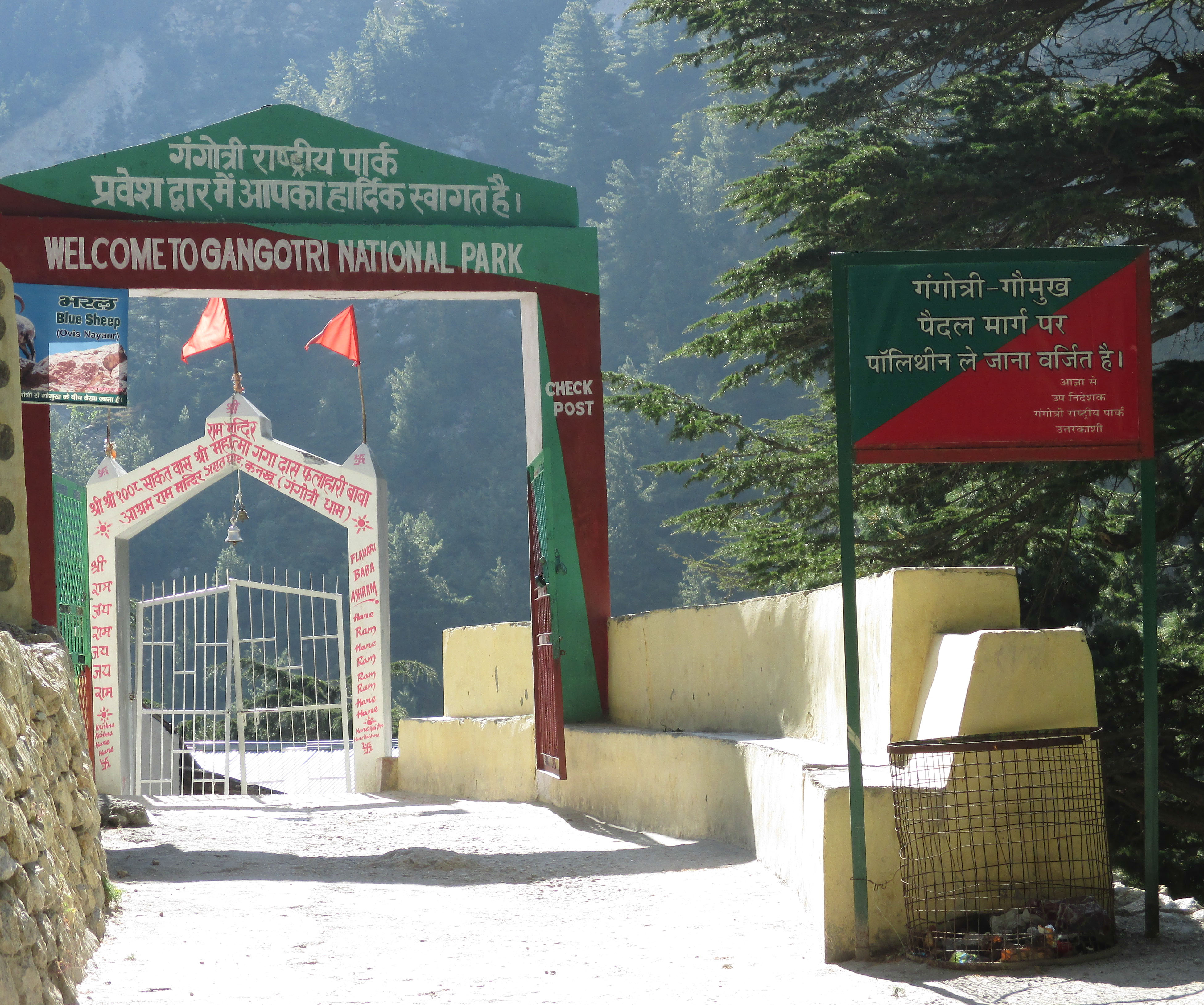 This picture was taken during Kalindi khal Trek.